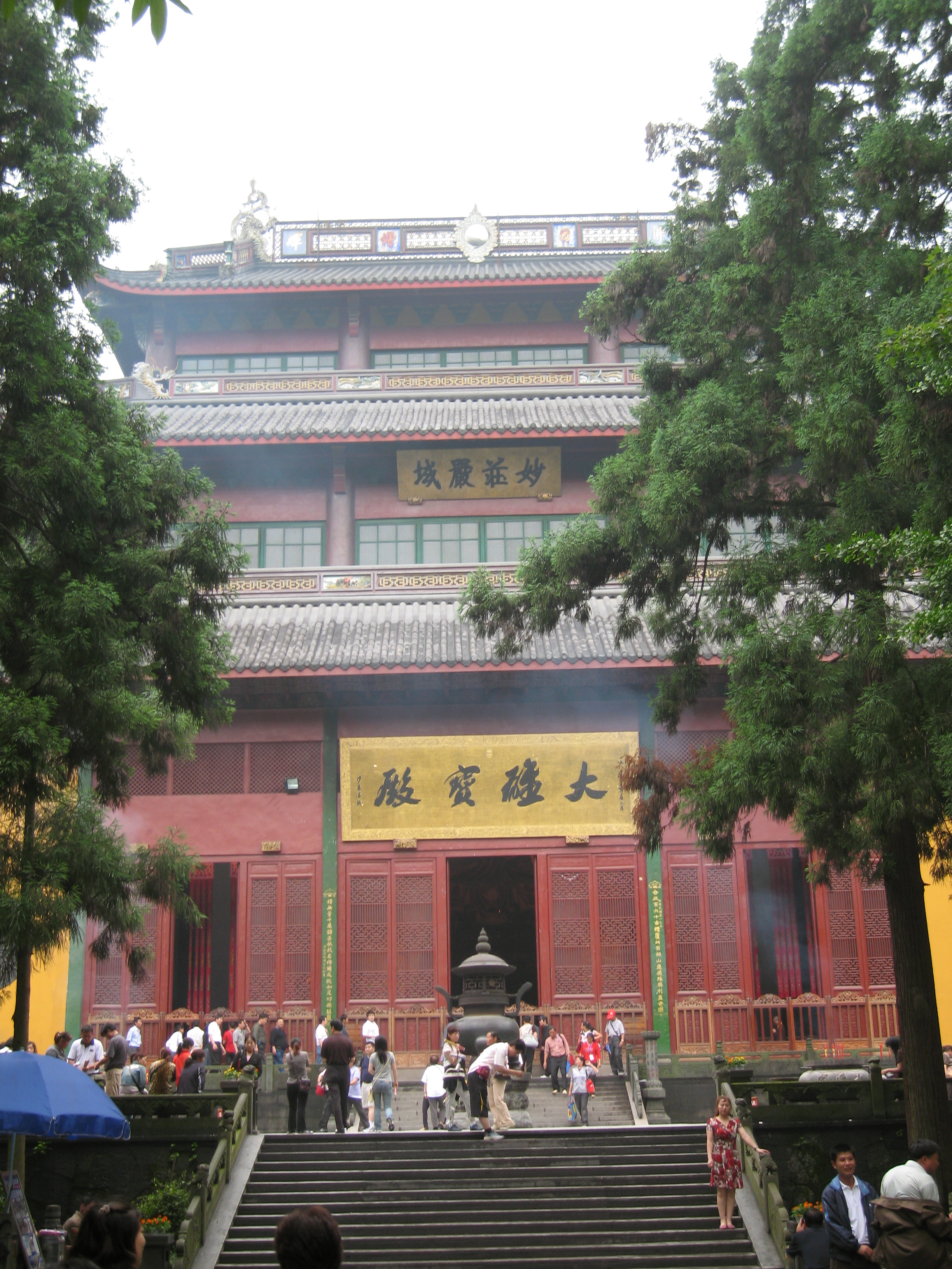 Lingyin Si temple in Huangzhou